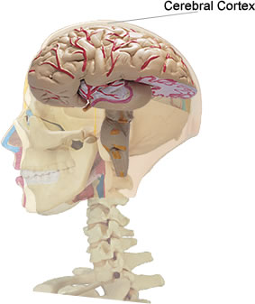 Location of the Cerebral Cortex.